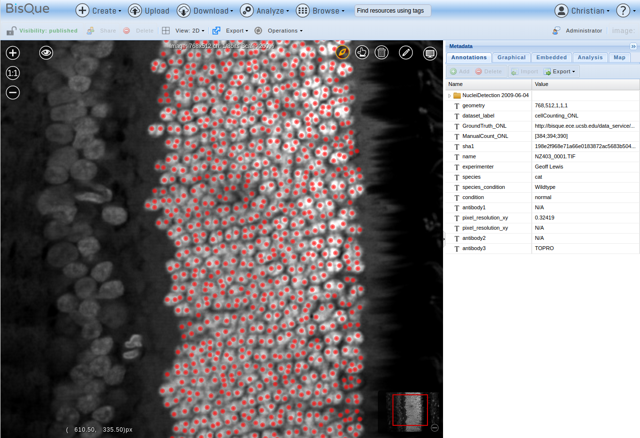 Screenshot of BisQue user interface running in a Chrome browser. Shown is the result of a cell nuclei detection module run with the red dots indicating nuclei. The right panel shows various annotations provided for the image.